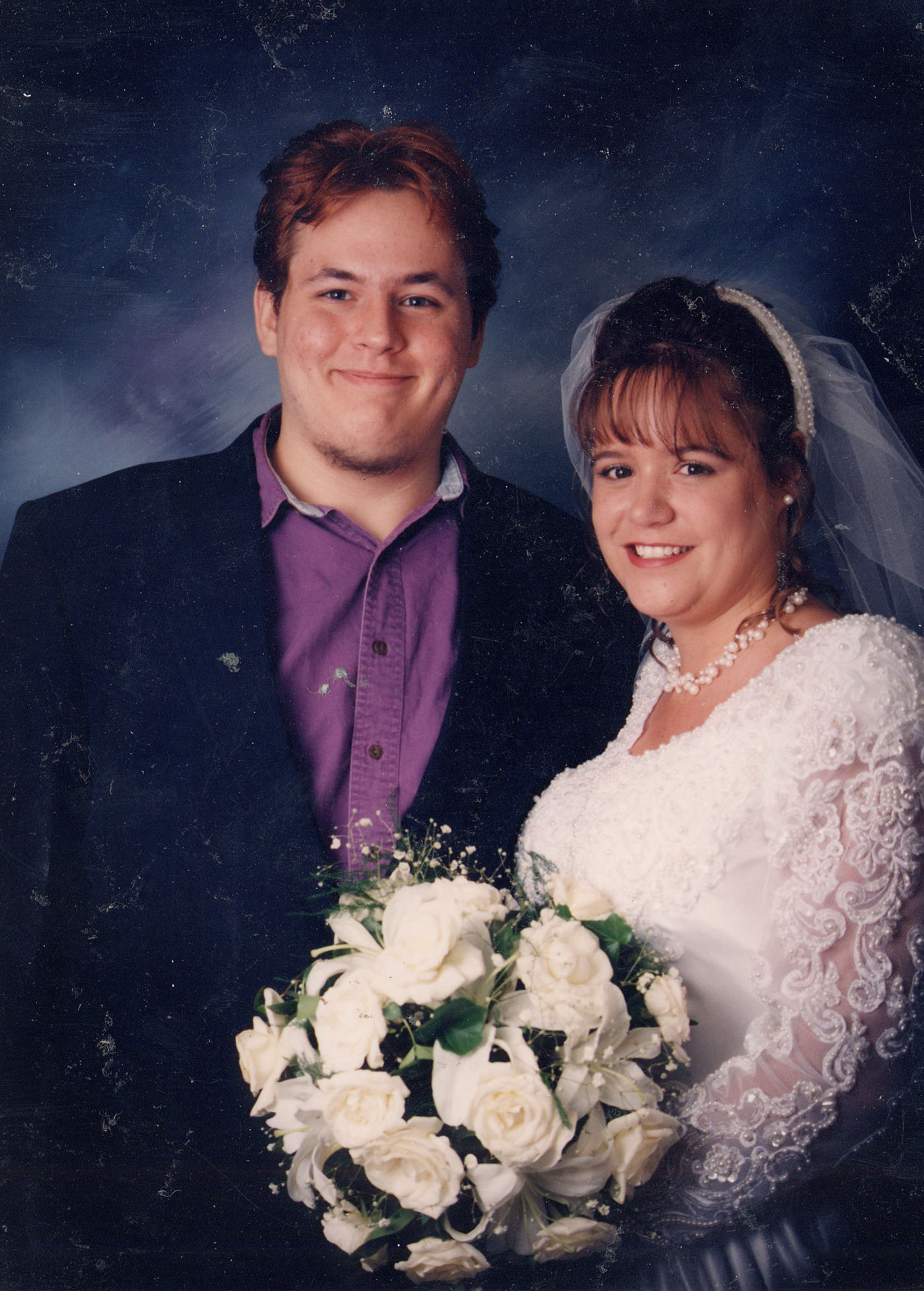 Woman in Wedding Dress